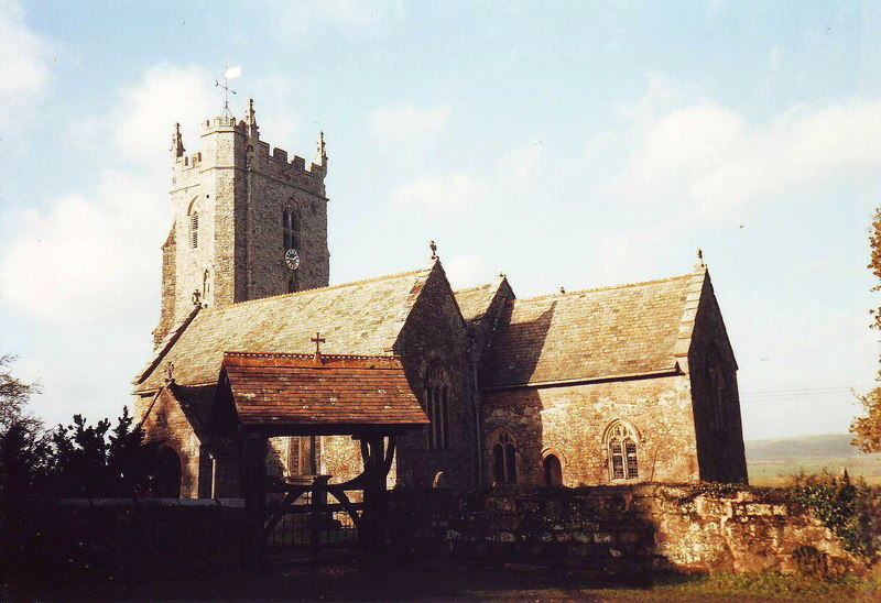 Parish church of Our Lady, Upton Pyne, Devon, seen from the southeast